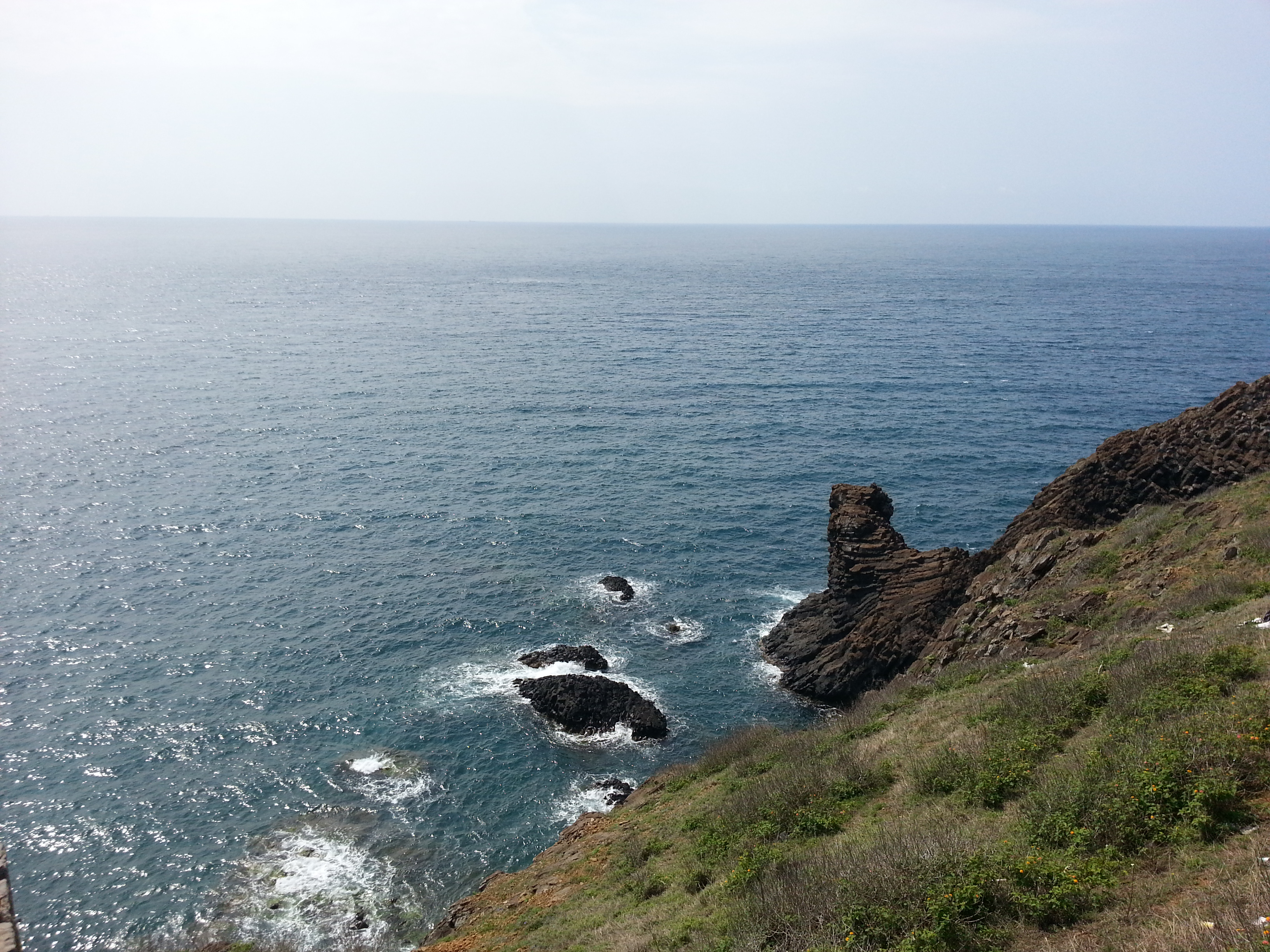 Lion stone on the Qimei Islet